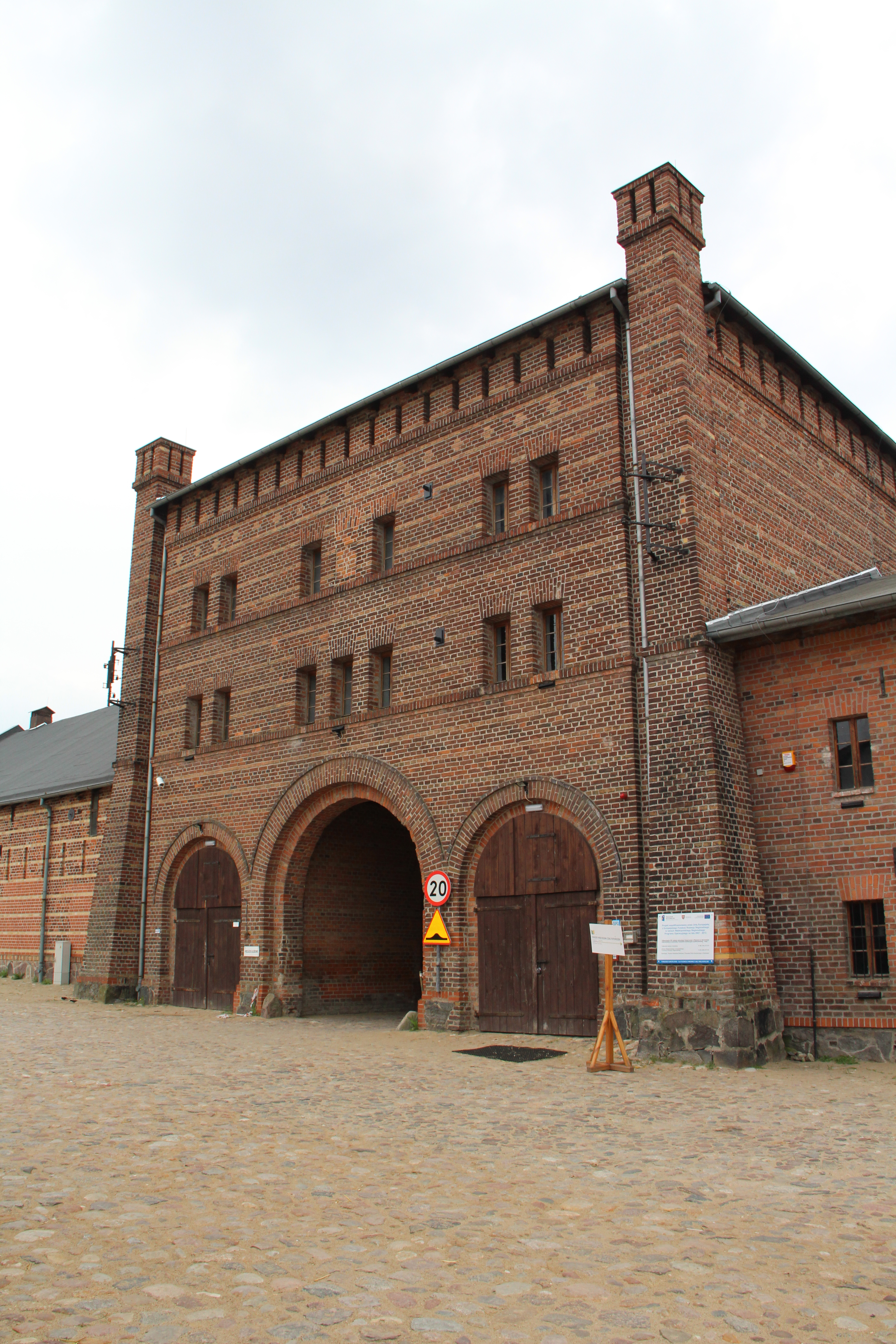 National Museum of Agriculture in Szreniawa